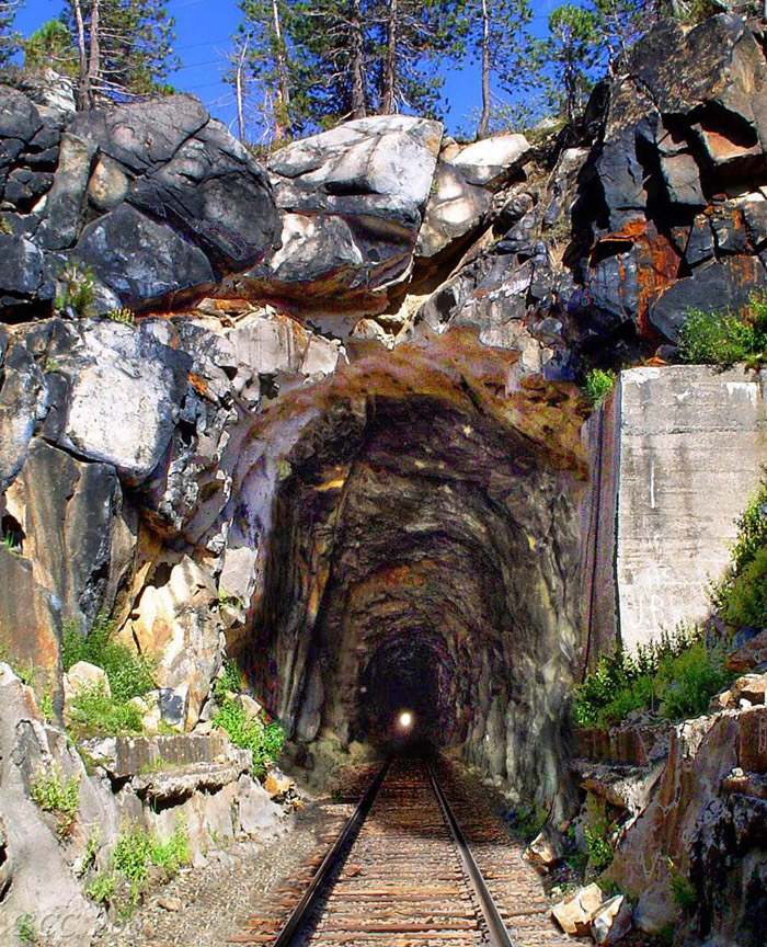 Composited digital illustration depicting the West portal of the CPRR's "Summit Tunnel" (Tunnel #6) which was in continuous use by the CPRR, SPRR, and UPRR from 1868 to 1993 at Donner Pass (Norden, California) on Track #1 of the original "Sierra Grade" of the Central Pacific Railroad. (The tracks removed in 1993 have been digitally restored in this illustration.)